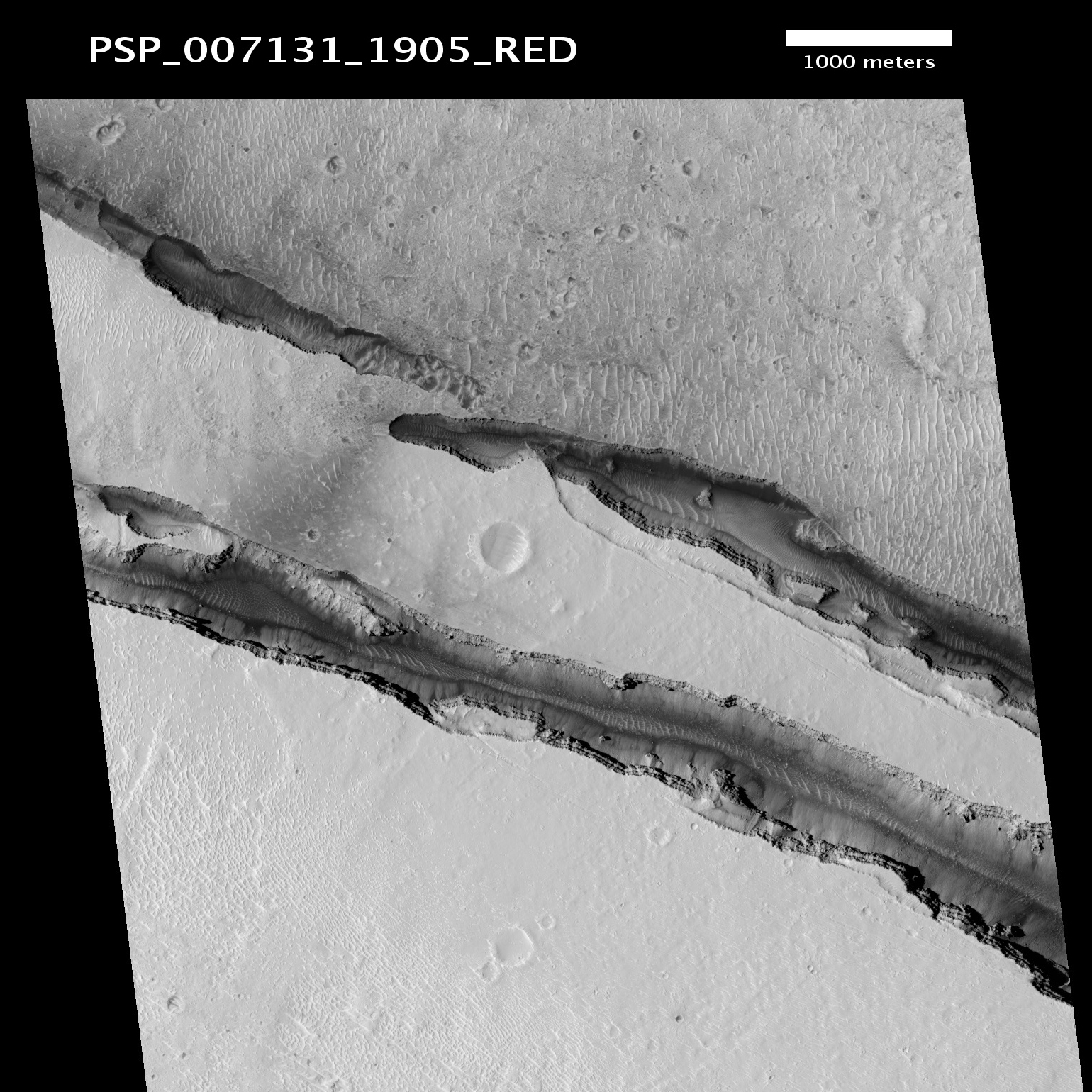 Closeup of several troughs in the Cerberus Fossae, as seen by the Mars Reconnaissance Orbiter's HiRISE camera. The location is 10.6 degrees north latitude and 159 degrees east longitude. The HiRISE camera was built by Ball Aerospace and Technology Corporation and is operated by the University of Arizona. Image courtesy NASA / JPL / University of Arizona.